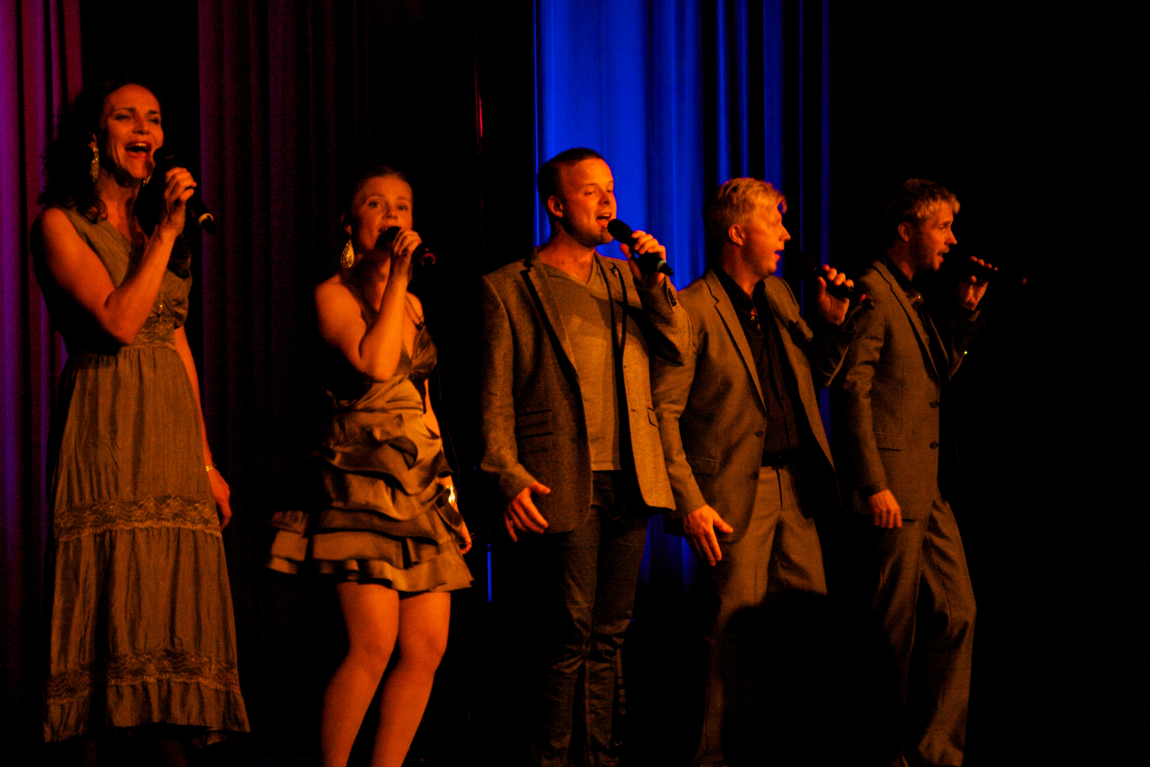 The Swedish a capella group: "The Real Group"